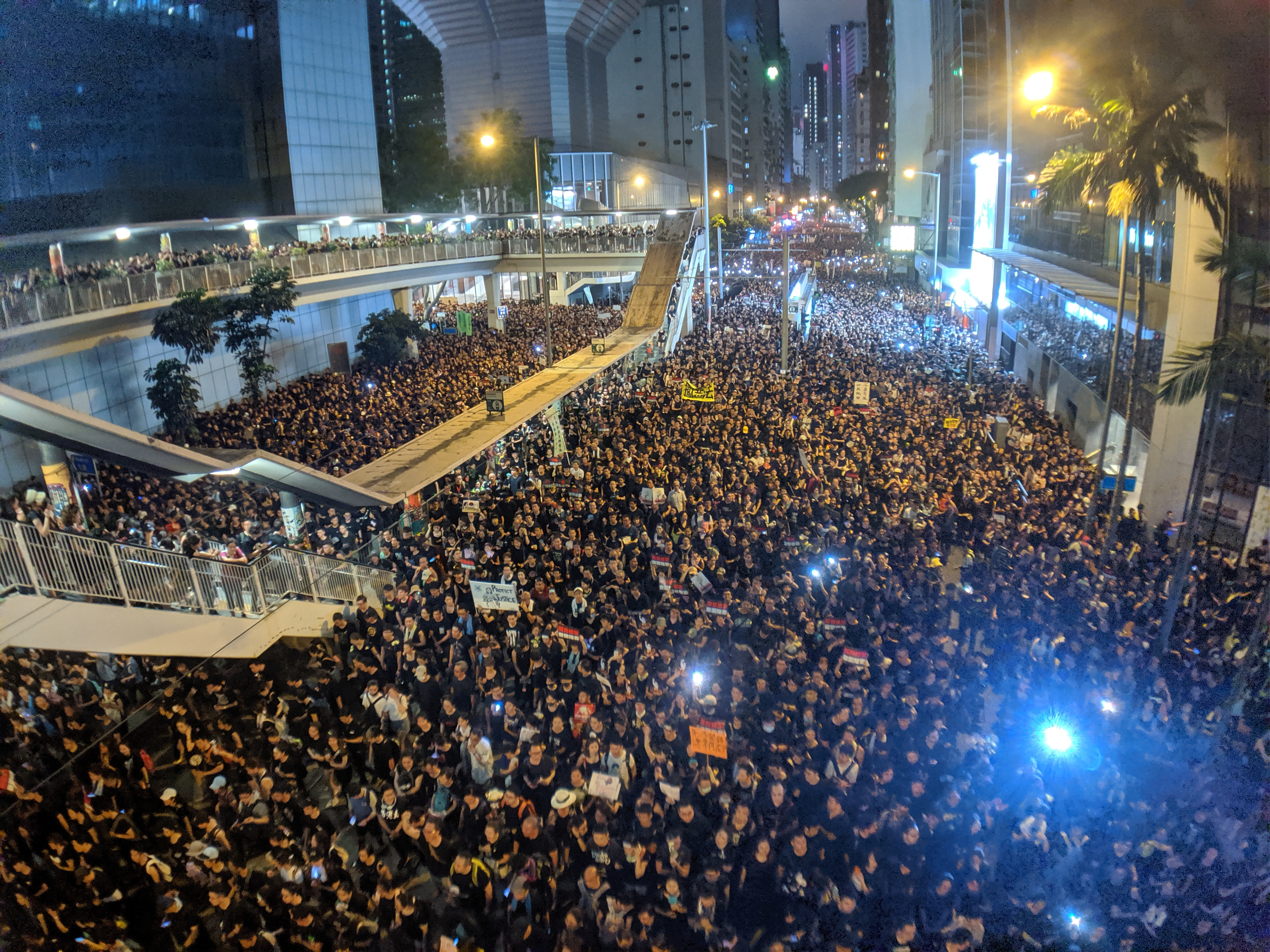 2019 Hong Kong anti-extradition law protest on 16 June, captured by Studio Incendo from Flickr.